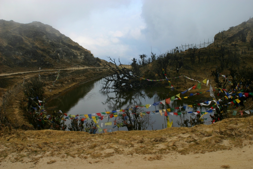 The Kali pokhri en route to Sandakphu from Manibhanj